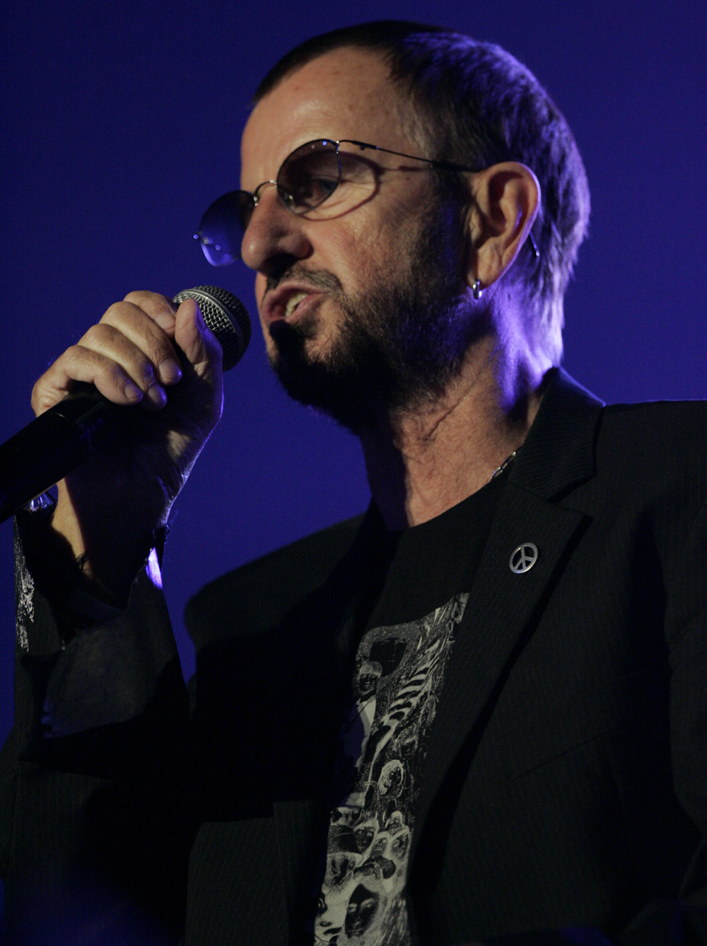 Ringo Starr and his All-Starr Band play the Hordern Pavilion in Sydney, Australia.